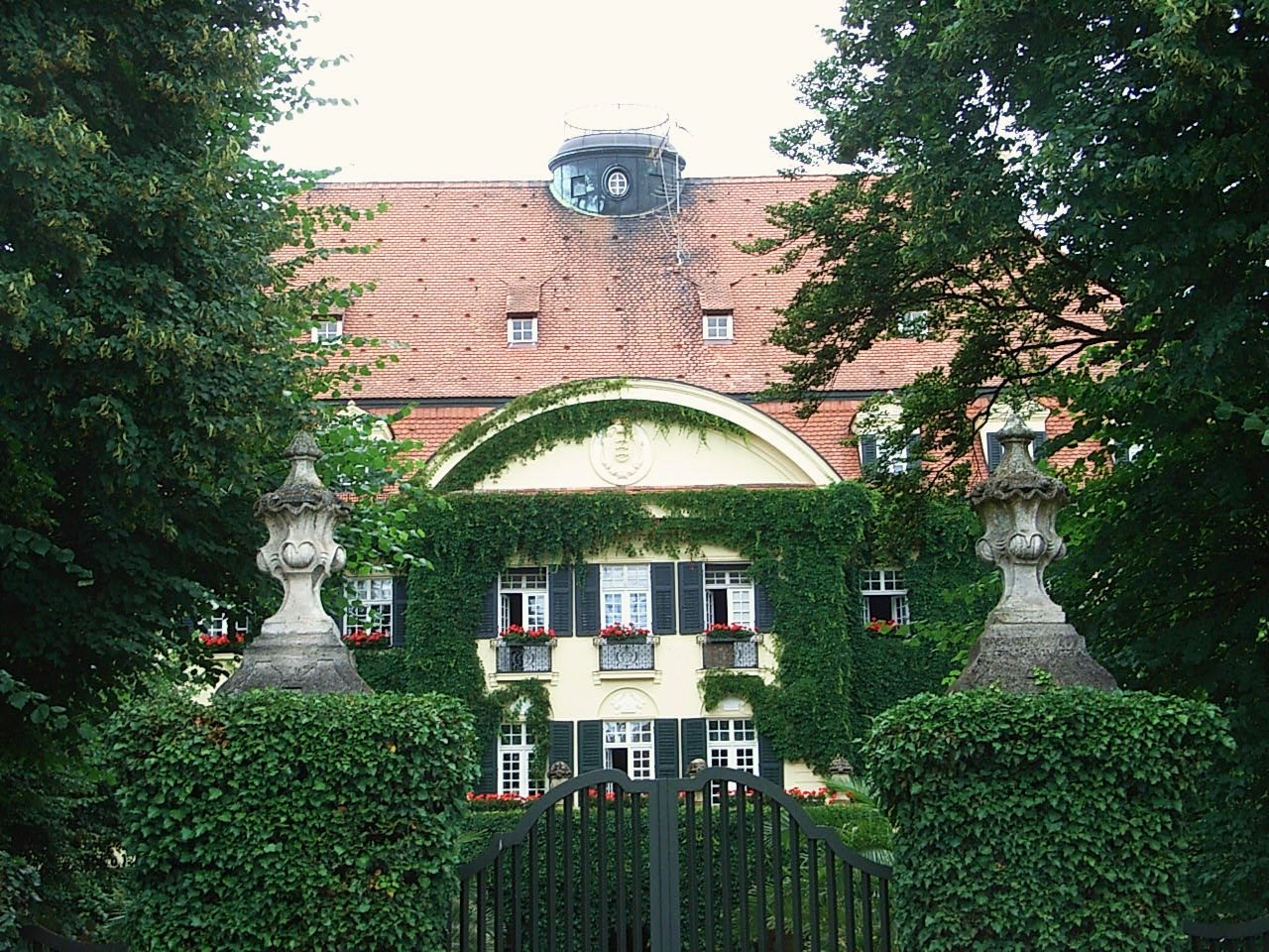 Main building of Adldorf Castle, built in 1906.